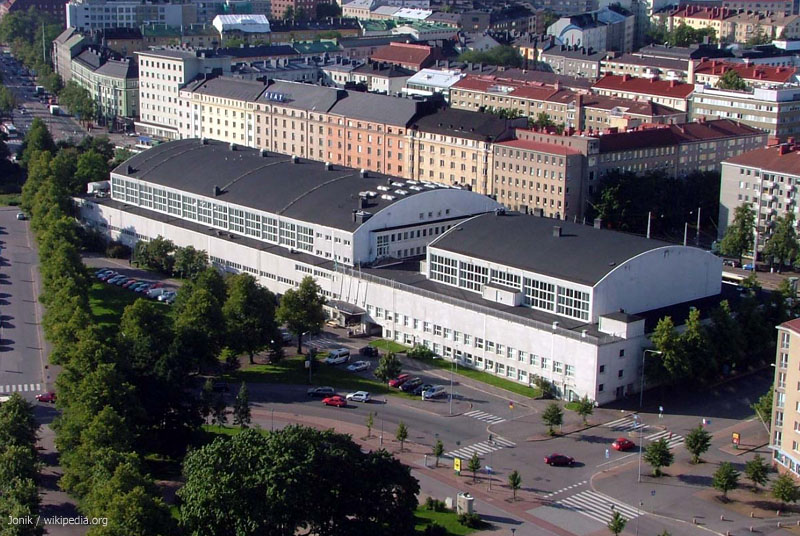 Töölön kisahalli ("Töölö sports hall") in Helsinki, Finland. Photo taken from the tower of the Helsinki Olympic Stadium.